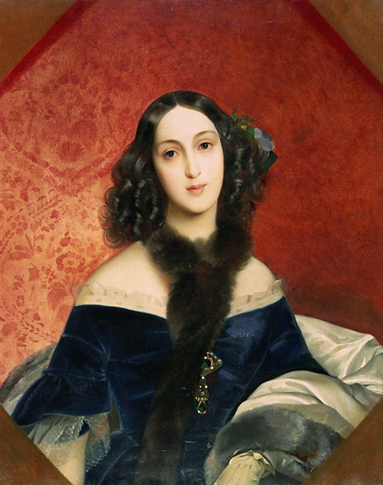 Portrait of M. A Beck